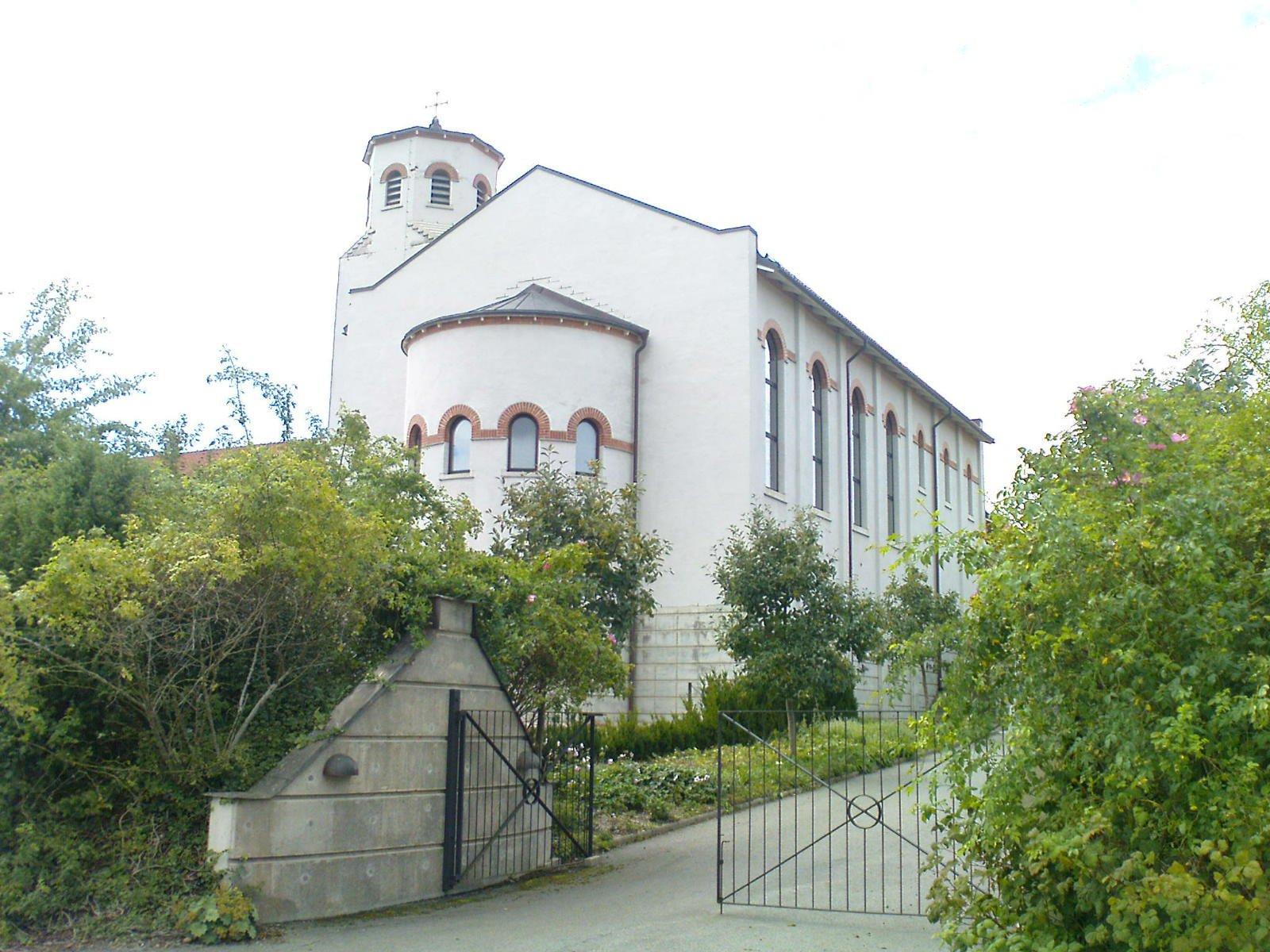 The monastery of the Sacred Heart, located between Ödeshög and Vadstena in the Swedish County of Östergötland.